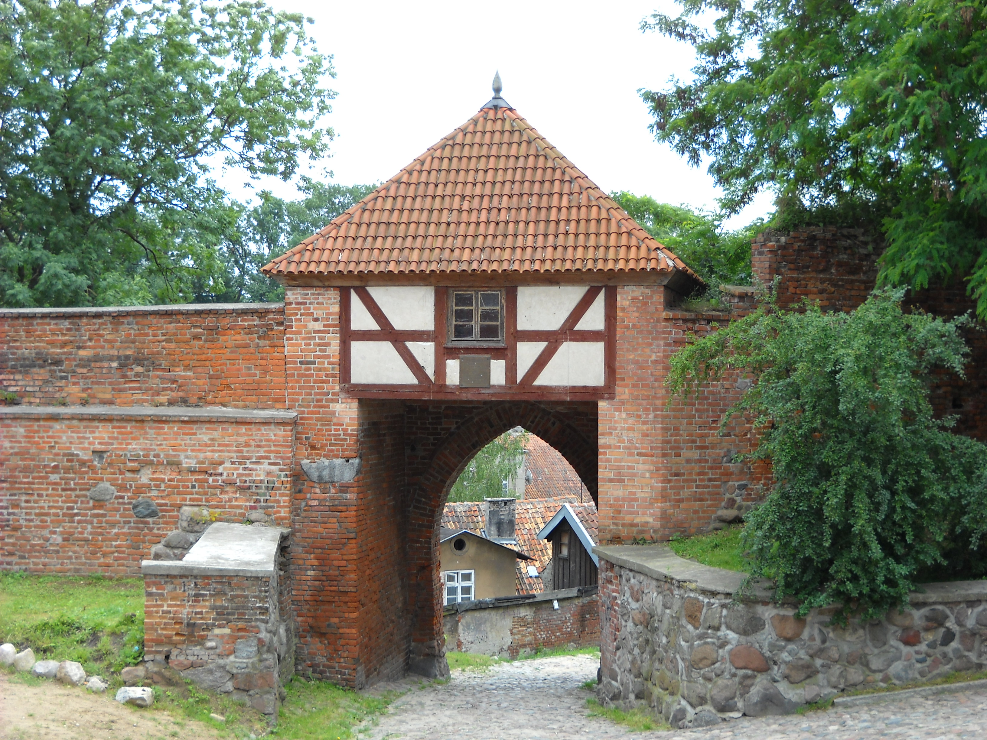 Mill Gate, Pasłęk